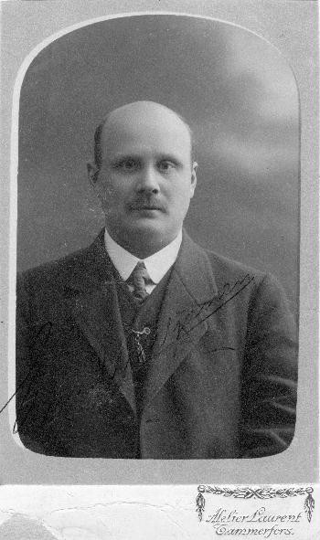 Photograph of the Finnish politician Emil Viljanen (1874–1954).